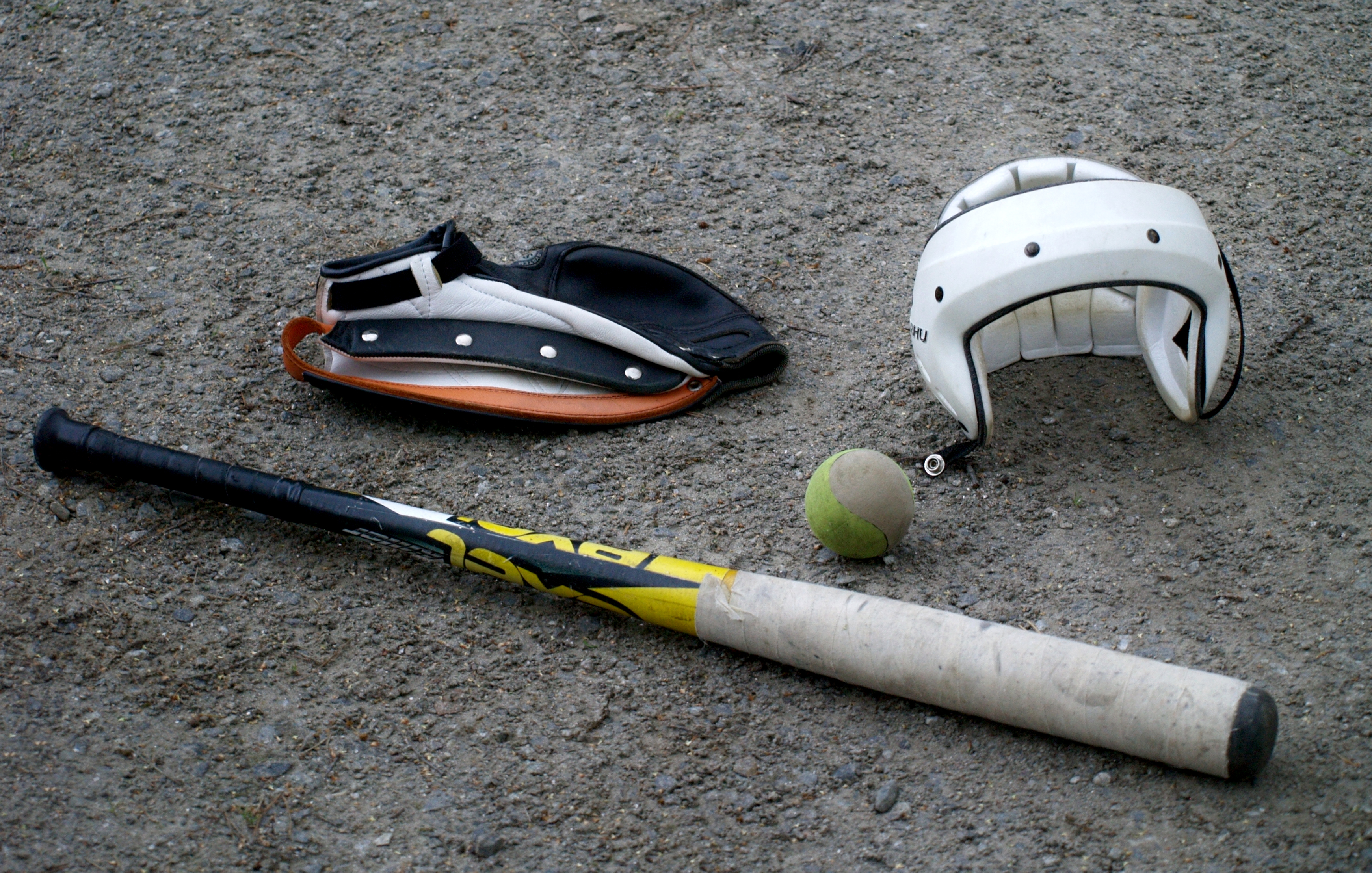 Pesäpallo equipments; glove, helmet, ball and bat.